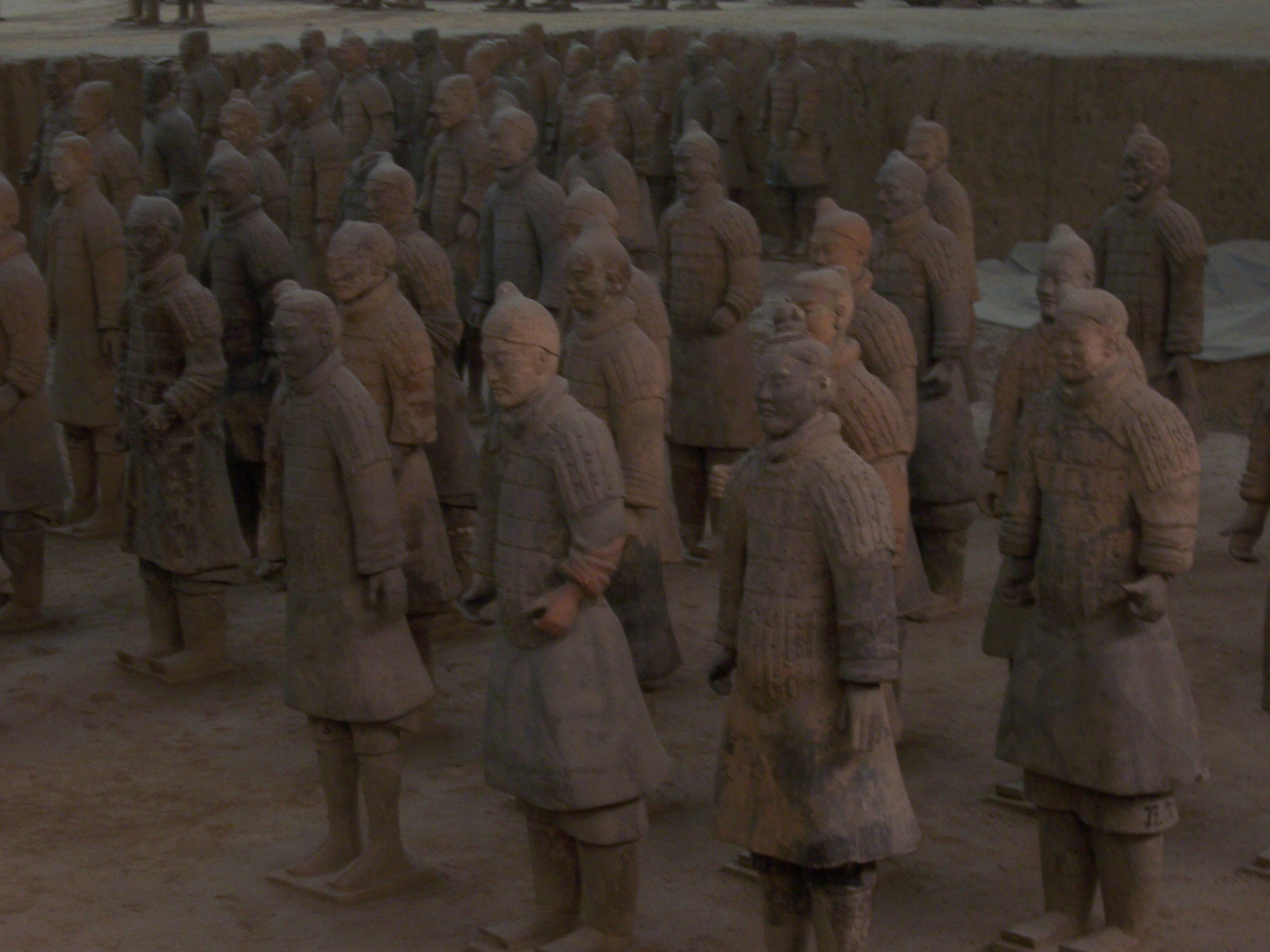 China - Xian 21 - Terracotta warriors